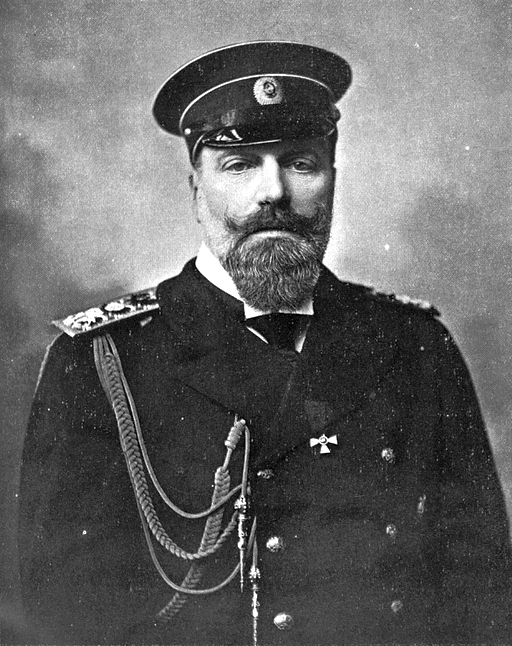 Grand Duke Alexei Alexandrovich of Russia